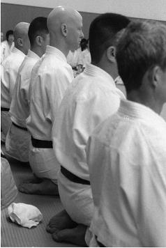 Preparation for sandan exam of Peter Rehse